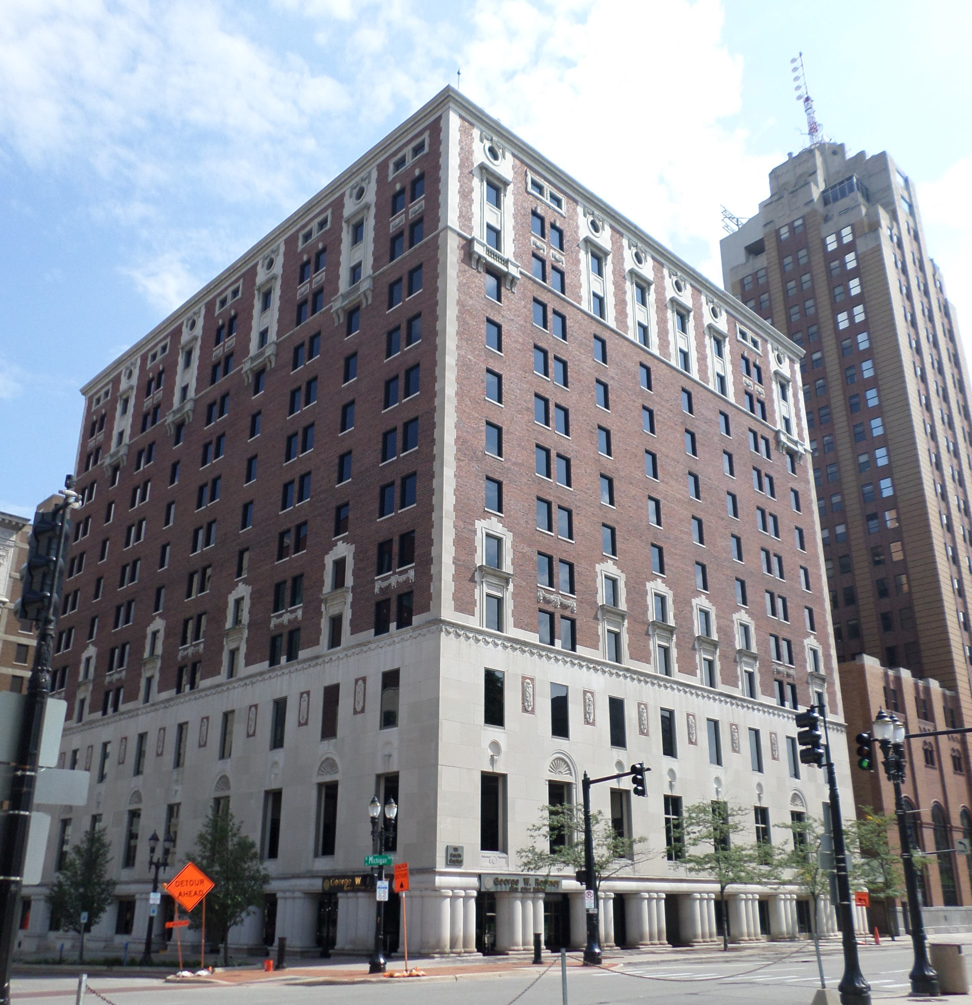 The George W. Romney building, located at 111 S. Capitol Ave., Lansing, MI.